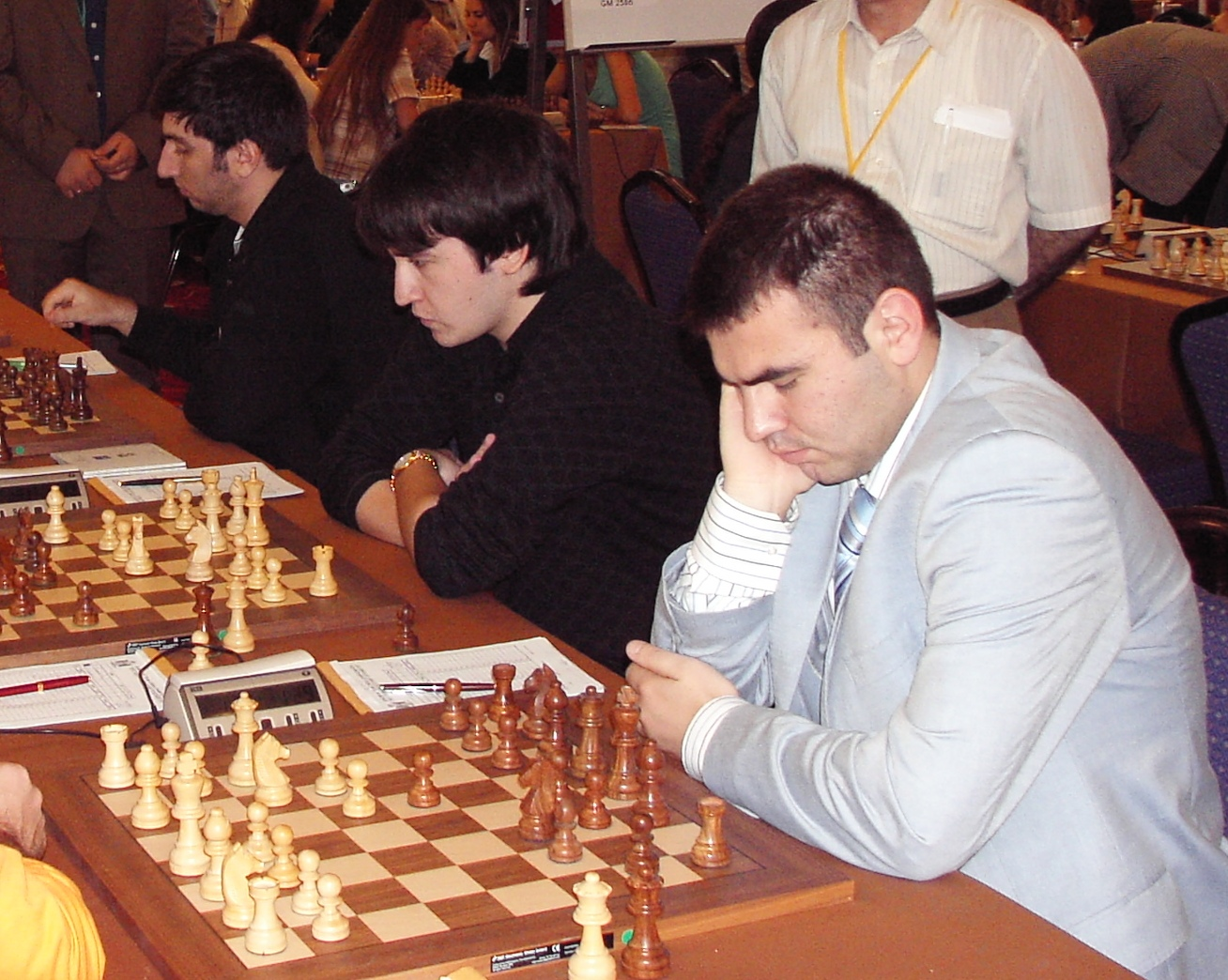 Azerbaijani Grandmasters Vugar Gashimov, Teimour Radjabov and Shakhriyar Mamedyarov at EuroChess 2007.